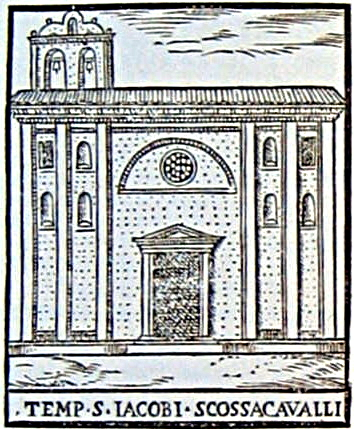 San Giacomo Scossacavalli by Girolamo Francino (1588)